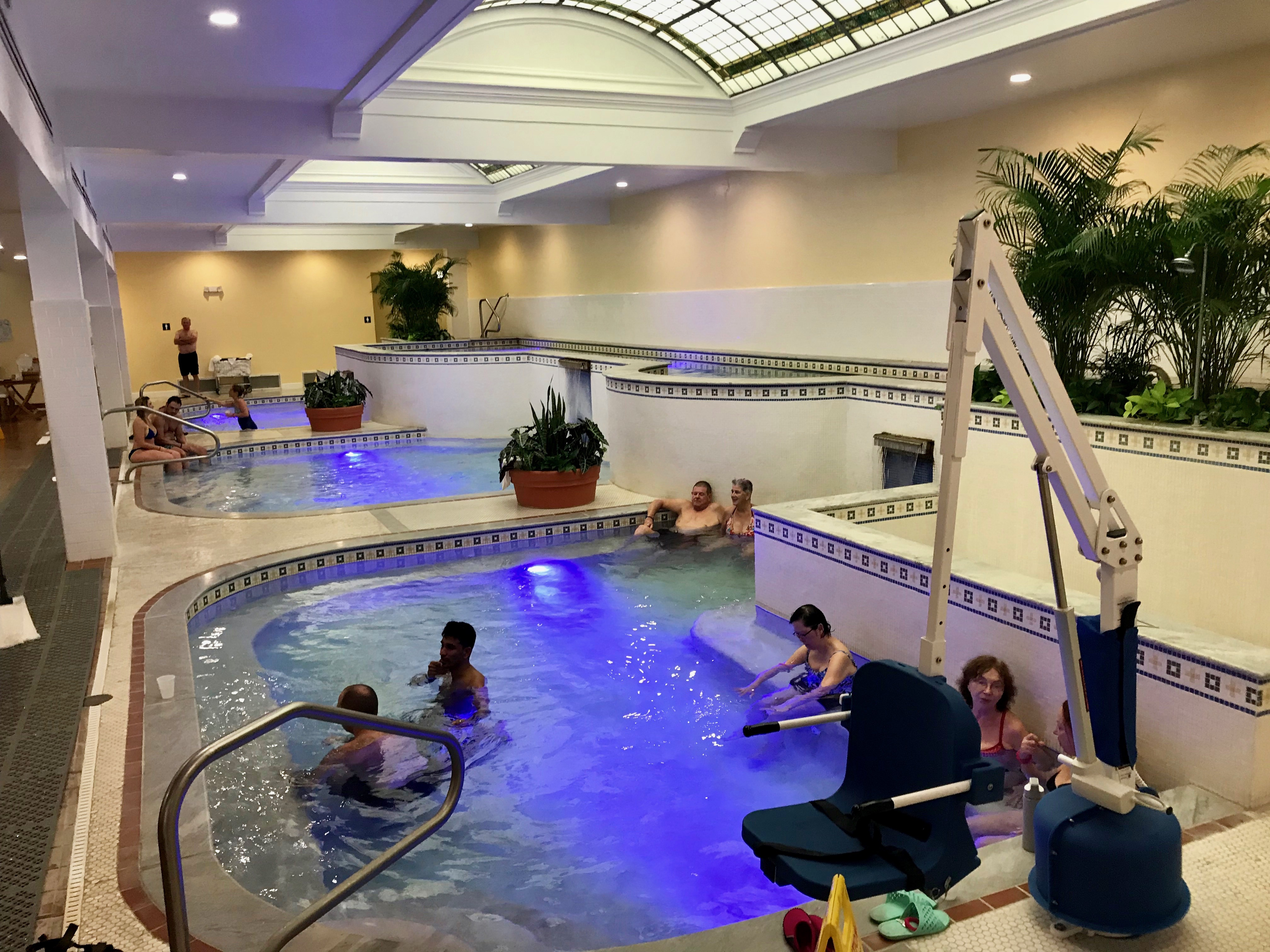 Quapaw Bathhouse @ Hot Springs National Park, Arkansas